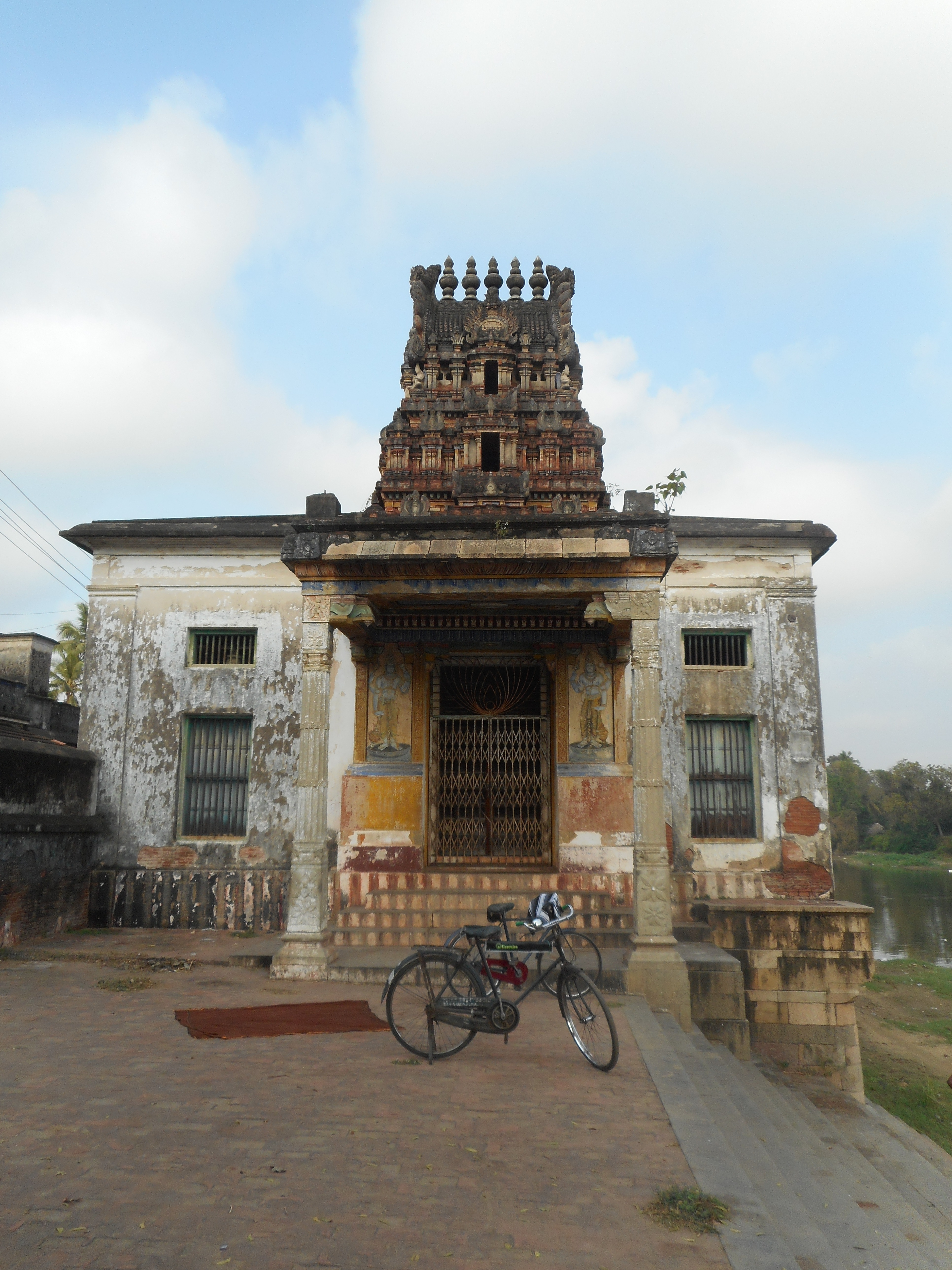 Kumbakonam Panduranga vittal templeகும்பகோணம் பாண்டுரங்கவிட்டல்சாமி கோயில்